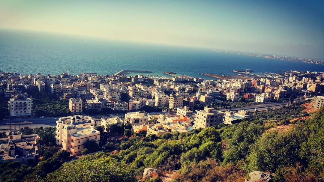 Qalamoun Skyline